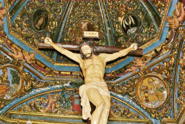 Camarin barroco